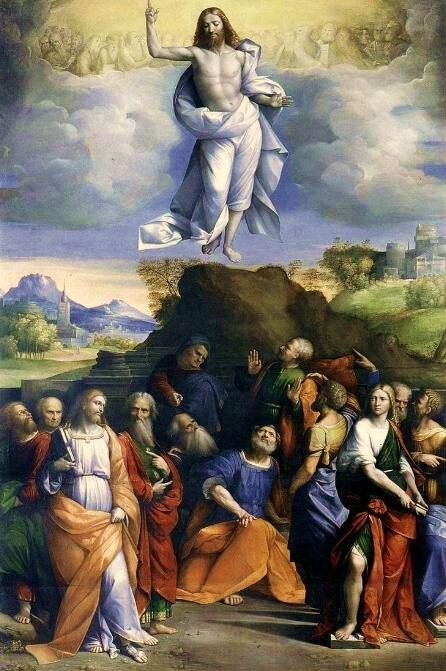 Ascension of Christ